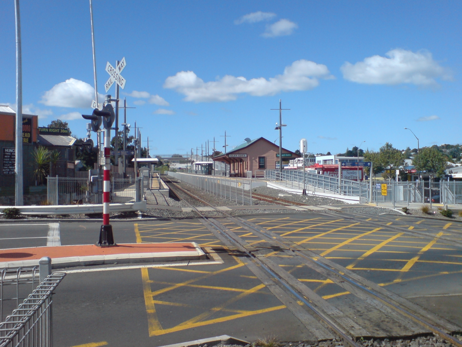 Glen Eden Train Station in Waitakere City, New Zealand. Looking east at the old station building, now a café. Historic Places Trust Cat II; #7435.